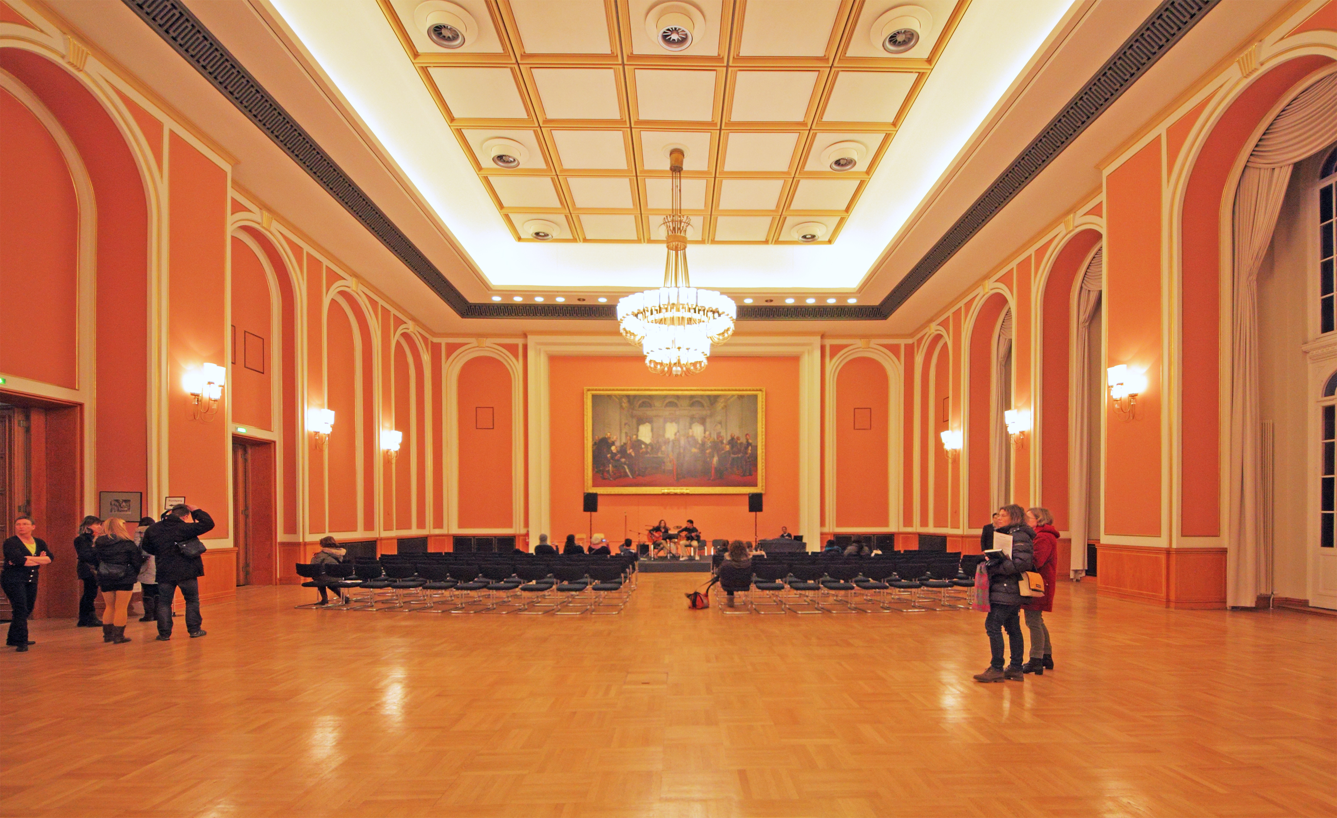 Interiors of Red Townhall in Berlin, Germany. Taken during the Night of Museums, March 2013.